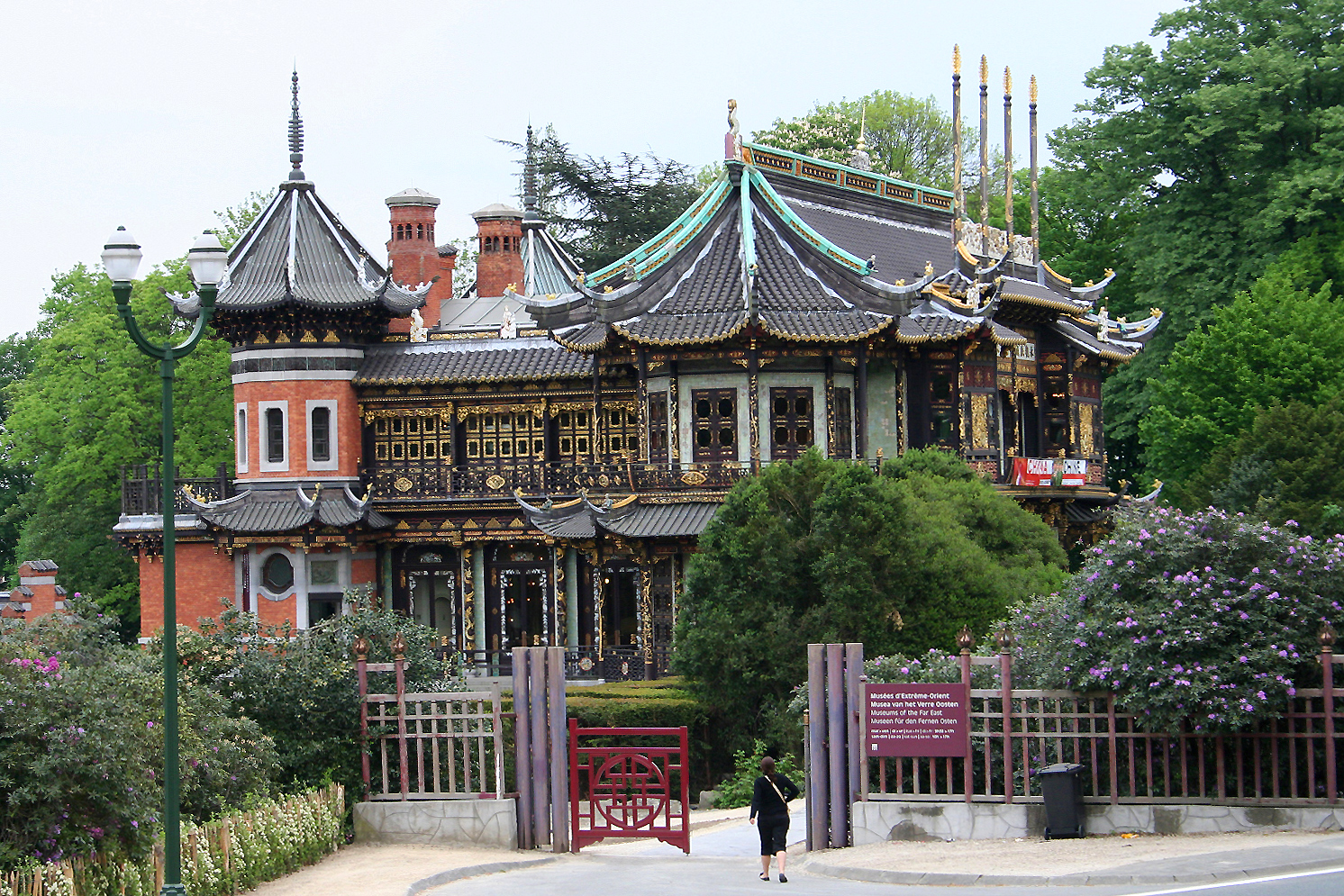 Laeken (Belgium), the Chinese pavilion (early 20th century - Alexandre Marcel). Walon: Laeken (Bèljike), li chalèt chinwès (dèbut do XXin.me sièke - Alexandre Marcel).